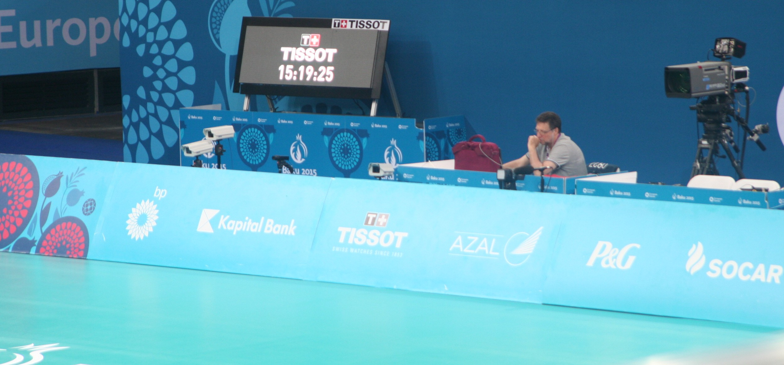 Sponsors of the 2015 European Games (Volleyball final match)